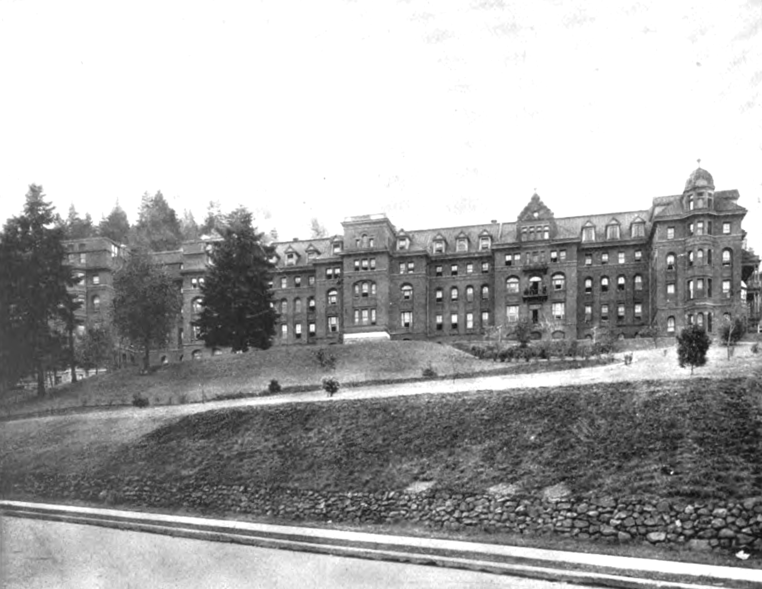 Providence St. Vincent Medical Center circa 1910 at original location in Portland, Oregon.